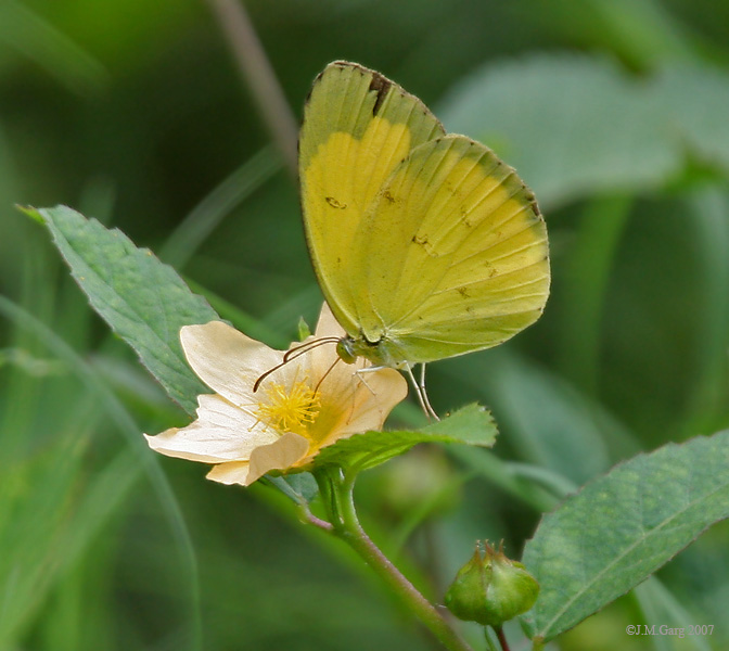 Common grass yellow Eurema hecabe in Kolkata, West Bengal, India.